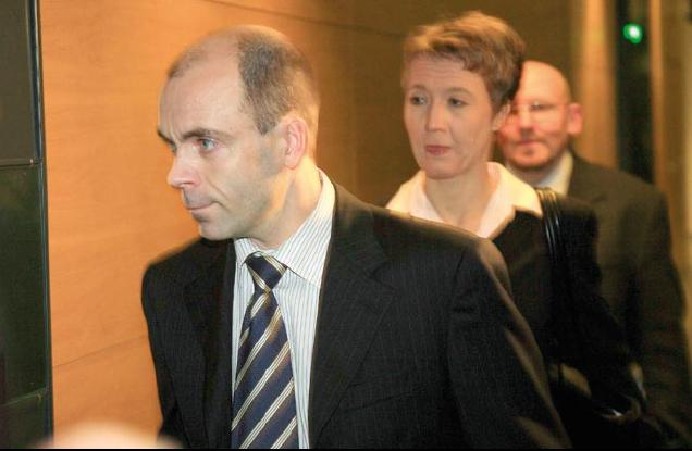 State prosecutor Ari-Pekka Koivisto arriving at the district court of Helsinki with district prosecutors Johanna Hervonen and Tommi Hietanen